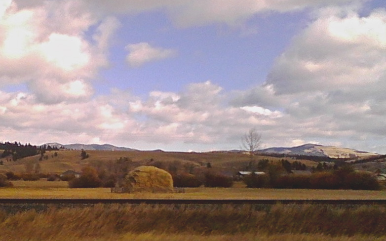 Haystack created with a beaverslide hay stacker, near Avon, Montana